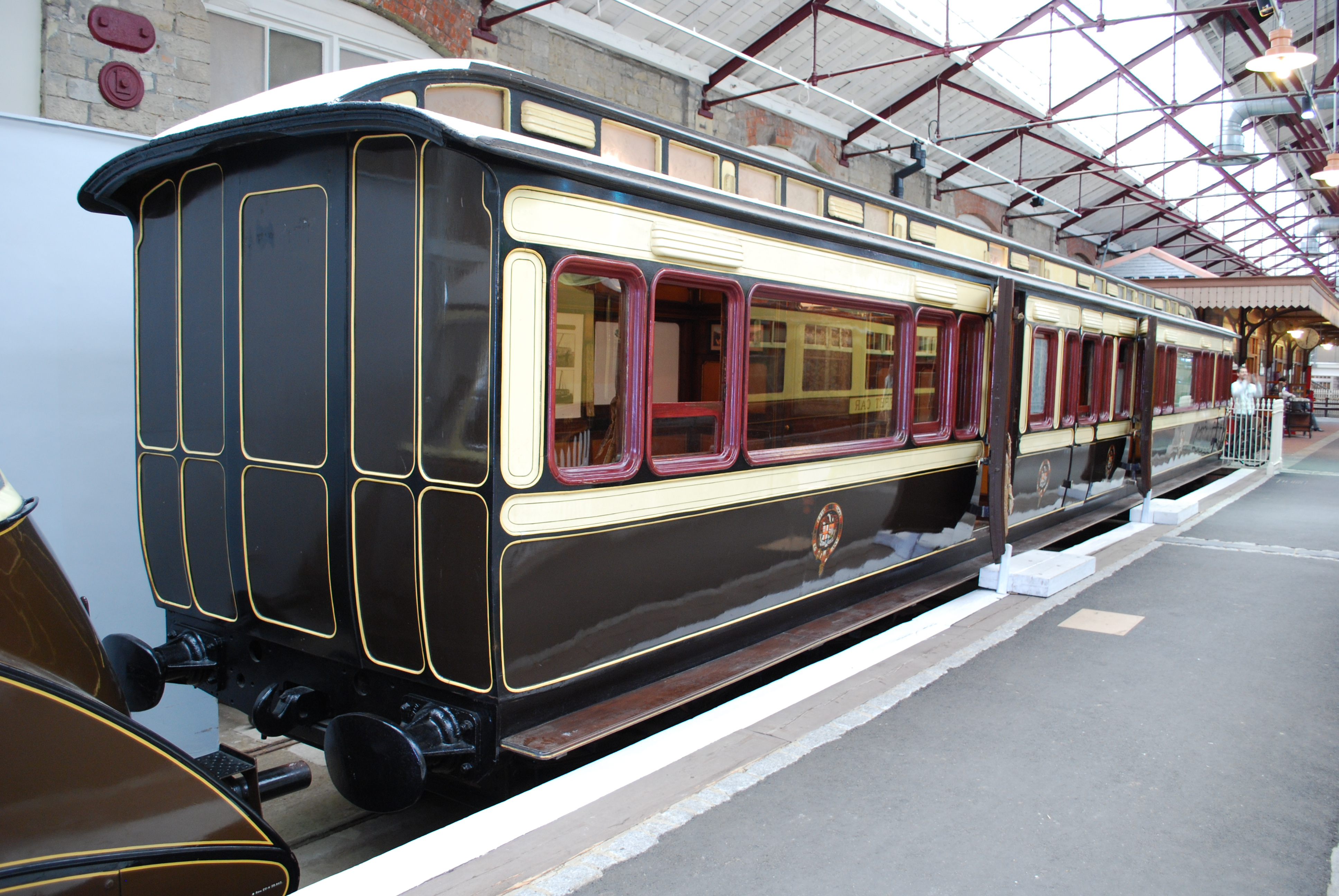 GWR Queen Victoria's Royal Saloon No.233, 58', Diagram G4, Lot 840, built at Swindon 1897 for Queen Victoria's Diamond Jubilee and not withdrawn until 1930. Designed by William Dean. At Steam, Swindon 07/09.